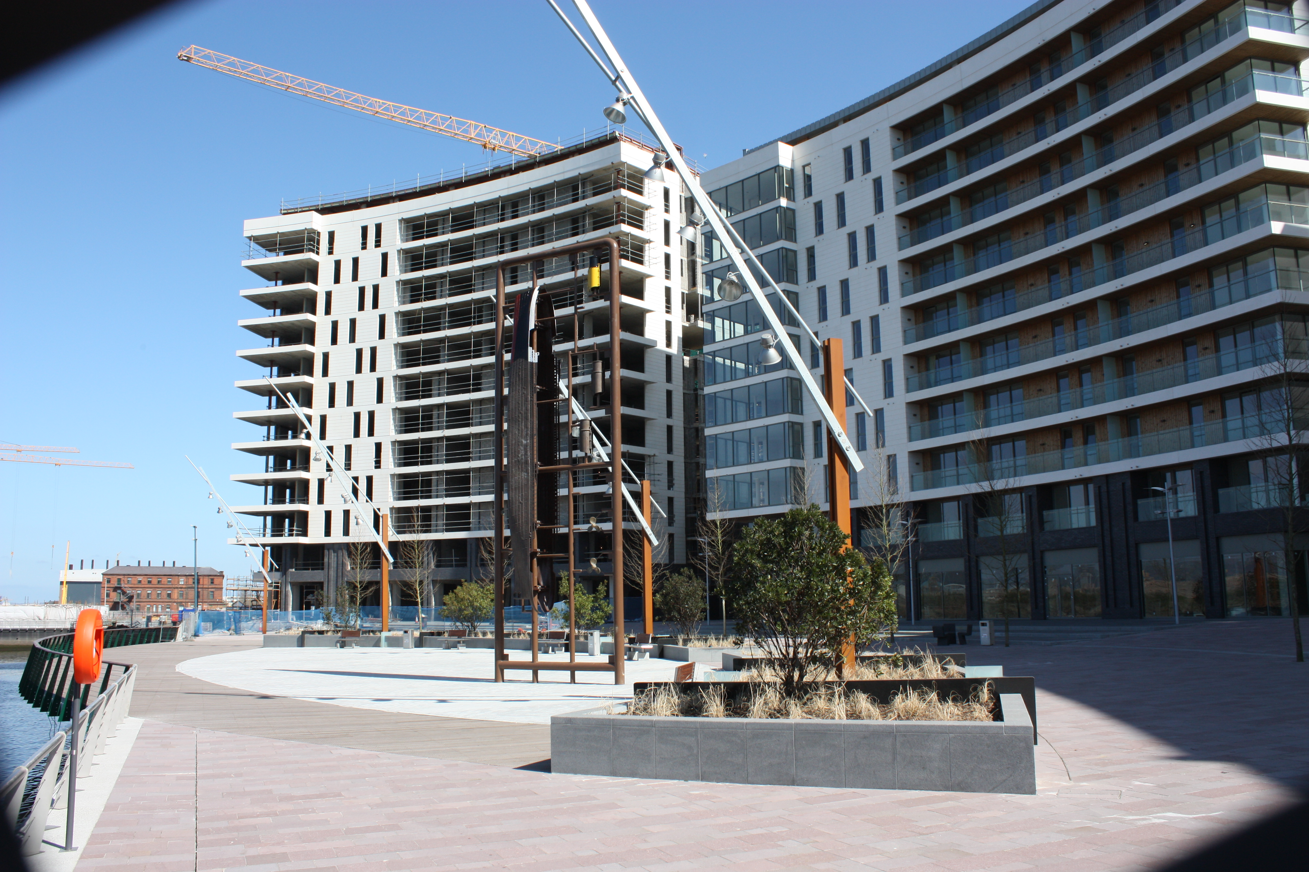 Titanic Quarter apartments and sculpture, Belfast, Northern Ireland, April 2010